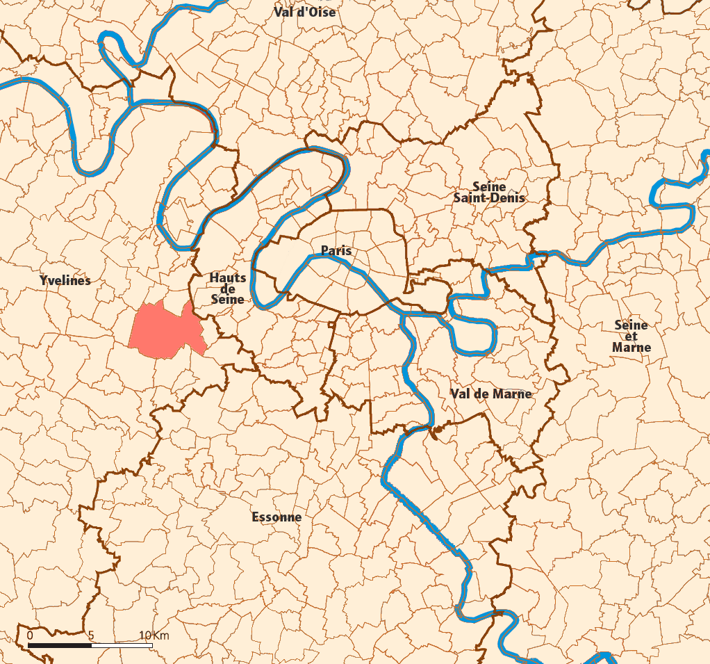 Map created by user Godefroy.